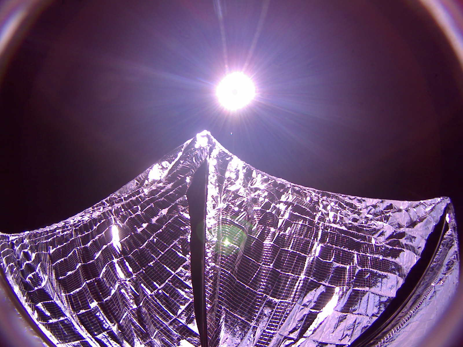 LightSail 1 captured this image of its deployed solar sails in Earth orbit on 8 June 2015. LightSail's cameras are fisheye lenses with a 185-degree field of view, which distort the shape of the sails and make them look curved in this image.